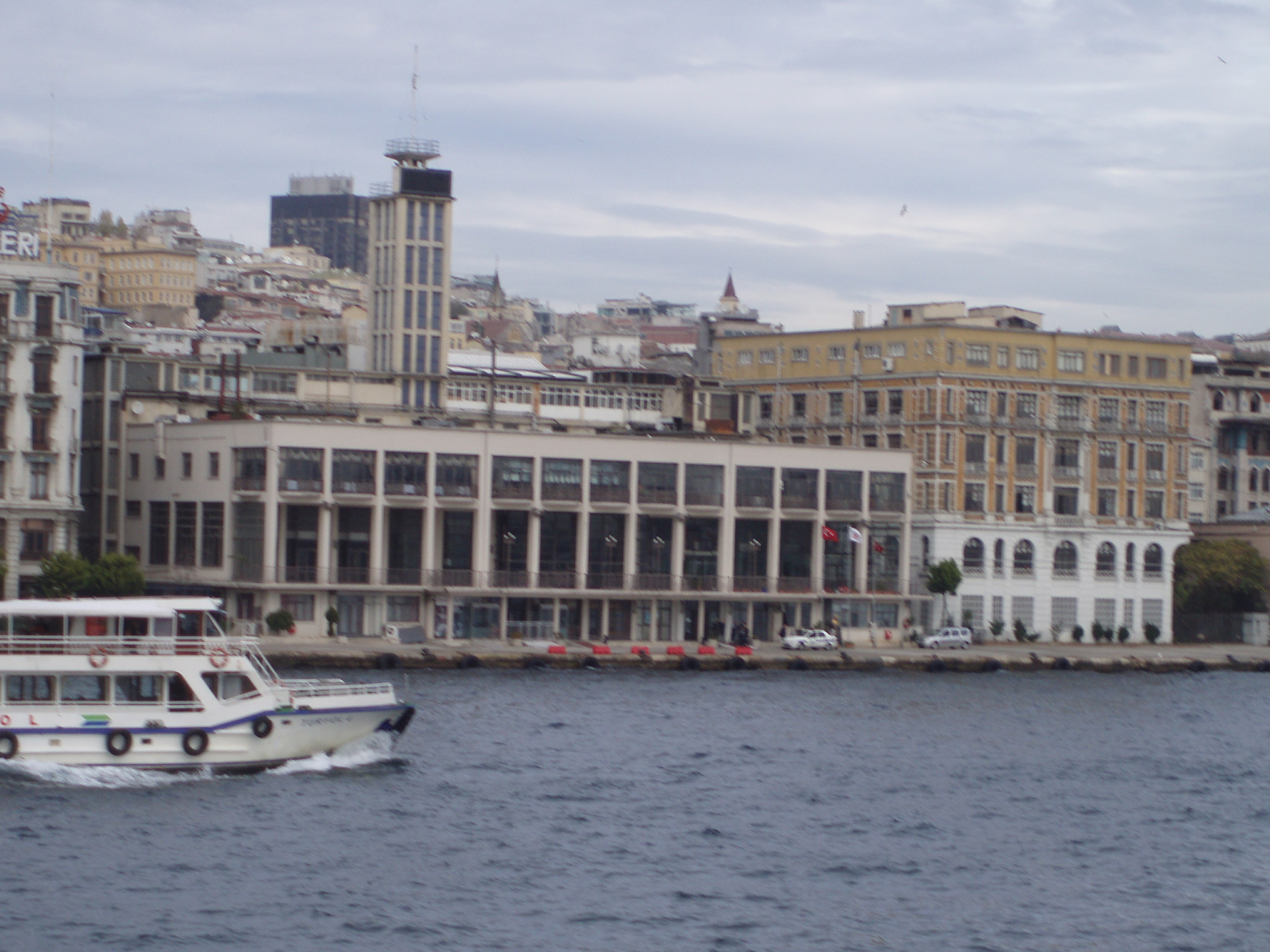 Port of Istanbul-Terminal building